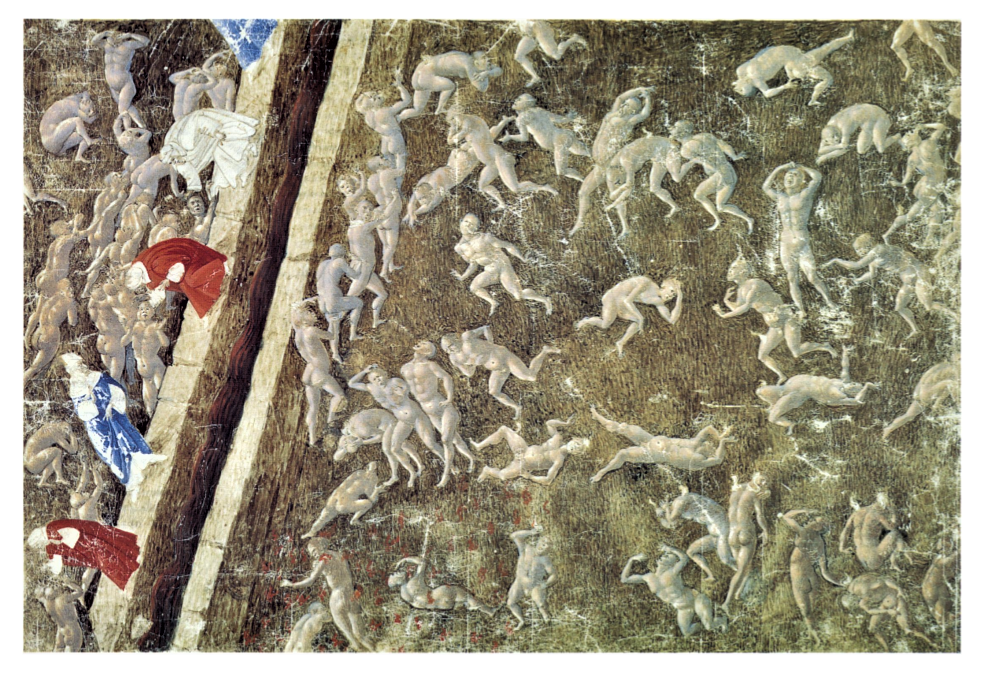 Botticelli's illustration from Inferno XV